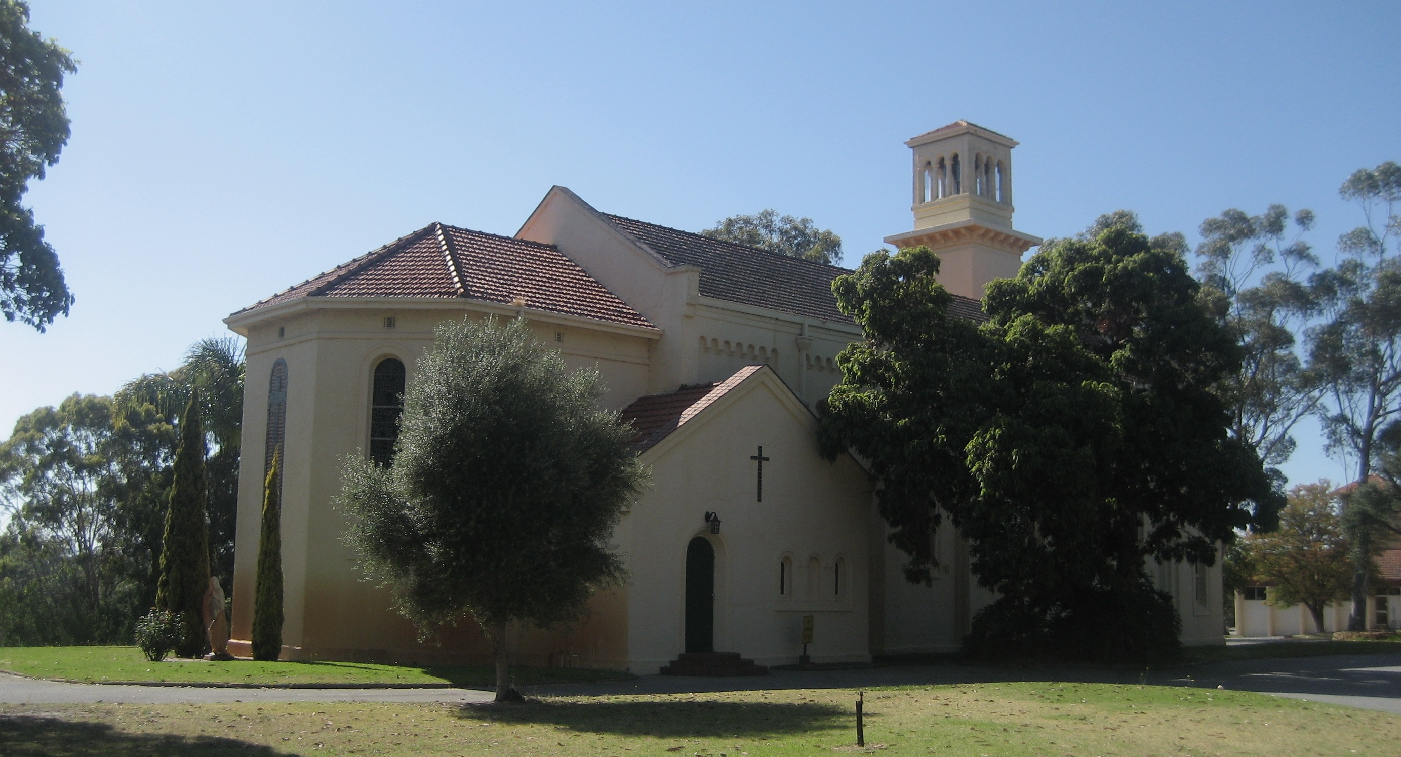 Clontarf chapel at Clontarf Aboriginal College in Waterford, Western Australia